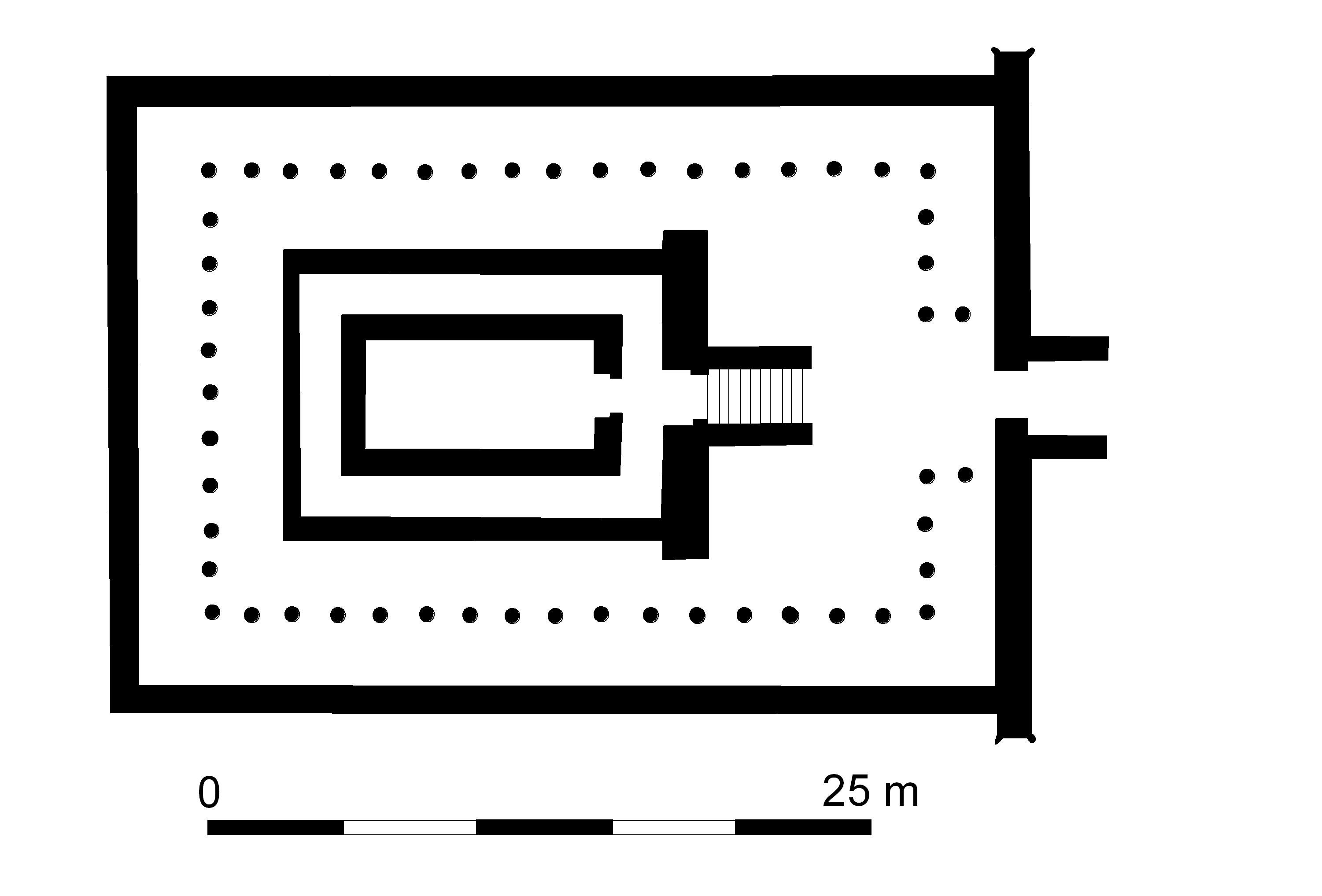 Plan of the Suntemple (M.250) at Meroe (Nubia) after Garstang, Meroe, the city of the Ethiopians, 1911